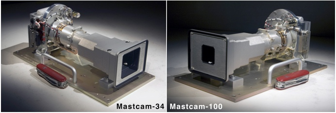 The Mast Camera is a two-instrument suite of imaging systems mounted on the MSL rover's Remote Sensing Mast (RSM), with the boresight ~1.97 m above the bottom of the wheels when the rover is on a flat surface. The FFL Mastcams (we use the plural here because the “eyes” of the FFL Mastcam investigation are not identical) as built and delivered consist of two cameras with different focal lengths and different science color filters. The stereo baseline of the pair is ~24.5 cm. One camera, referred to as the Mastcam-34 (M-34), has a ~34 mm focal length, f/8 lens that illuminates a 15° square field-of-view (FOV), 1200 × 1200 pixels on the 1600 × 1200 pixel detector. The other camera, the Mastcam-100 (M-100), has a ~100 mm focal length, f/10 lens that illuminates a 5.1° square, 1200 × 1200 pixel FOV. Both cameras can focus between 2.1 m (nearest view to the surface) and infinity. The M-100 IFOV is 7.4 × 10^-5 radians, yielding 7.4 cm/pixel scale at 1 km distance and ~150 µm/pixel scale at 2 m distance. The M-34 IFOV is 2.2 × 10^-4 radians, which yields a pixel scale of 450 µm at 2 m distance and 22 cm at 1 km. A strict definition of “in focus” is used for these cameras wherein the optical blur circle is equal to or less than one pixel across. Each camera has an 8 gigabyte internal buffer that permits it to store over 5,500 raw frames. Each camera is capable of losslessly compressing the images, or applying lossy JPEG compression, in realtime during acquisition and storage, although it is more likely that images will be acquired raw and compressed just prior to downlink to Earth.